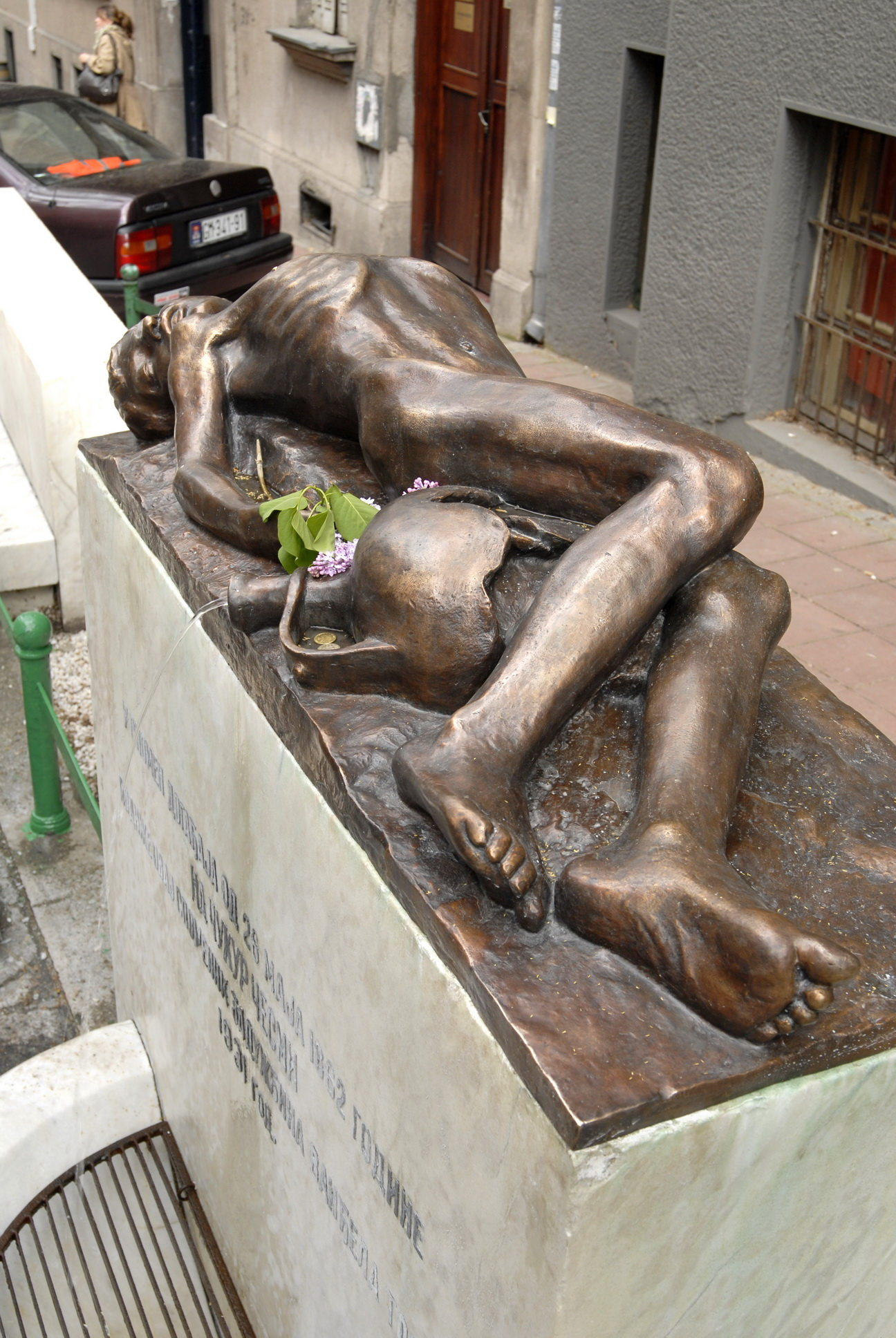 Чукур чесма